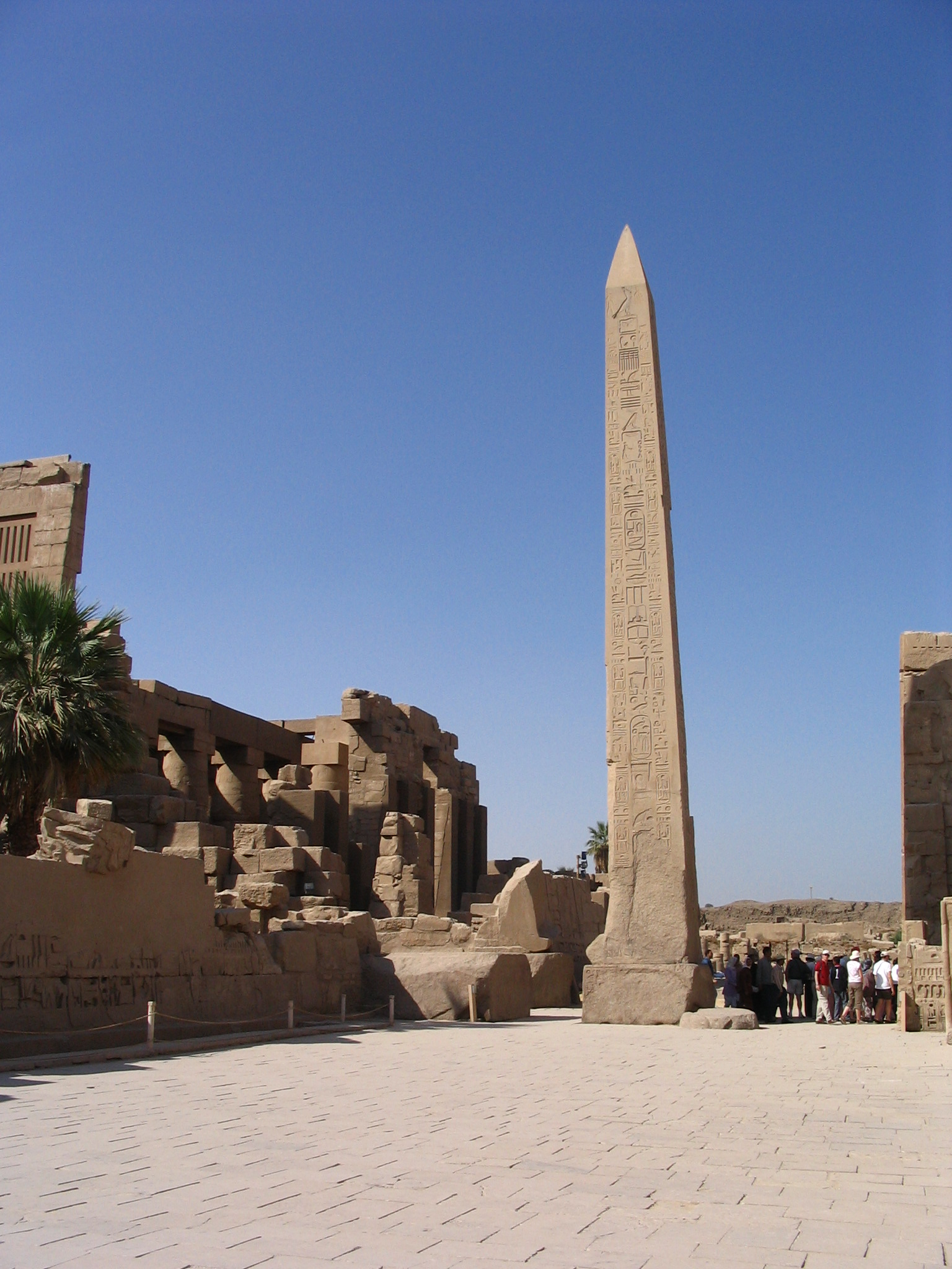 Obelisk of Thutmosis I in Karnak